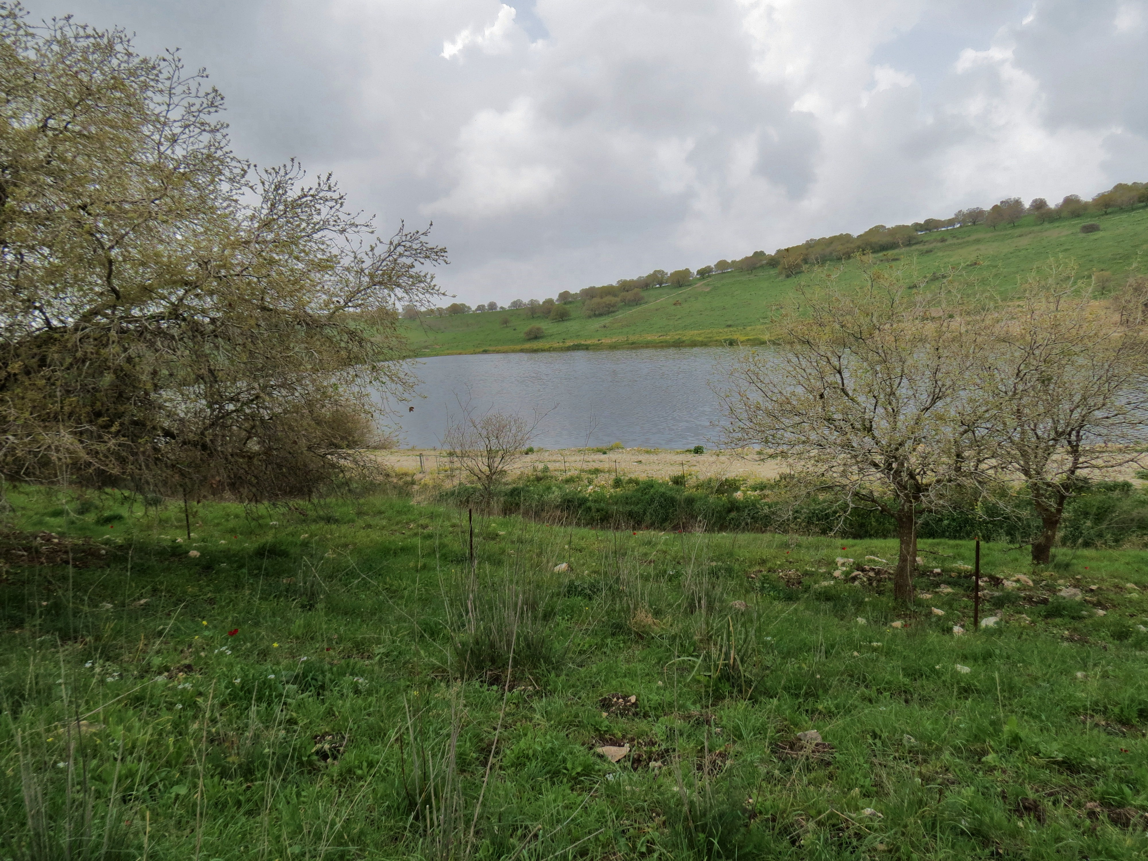 Nature and Colors